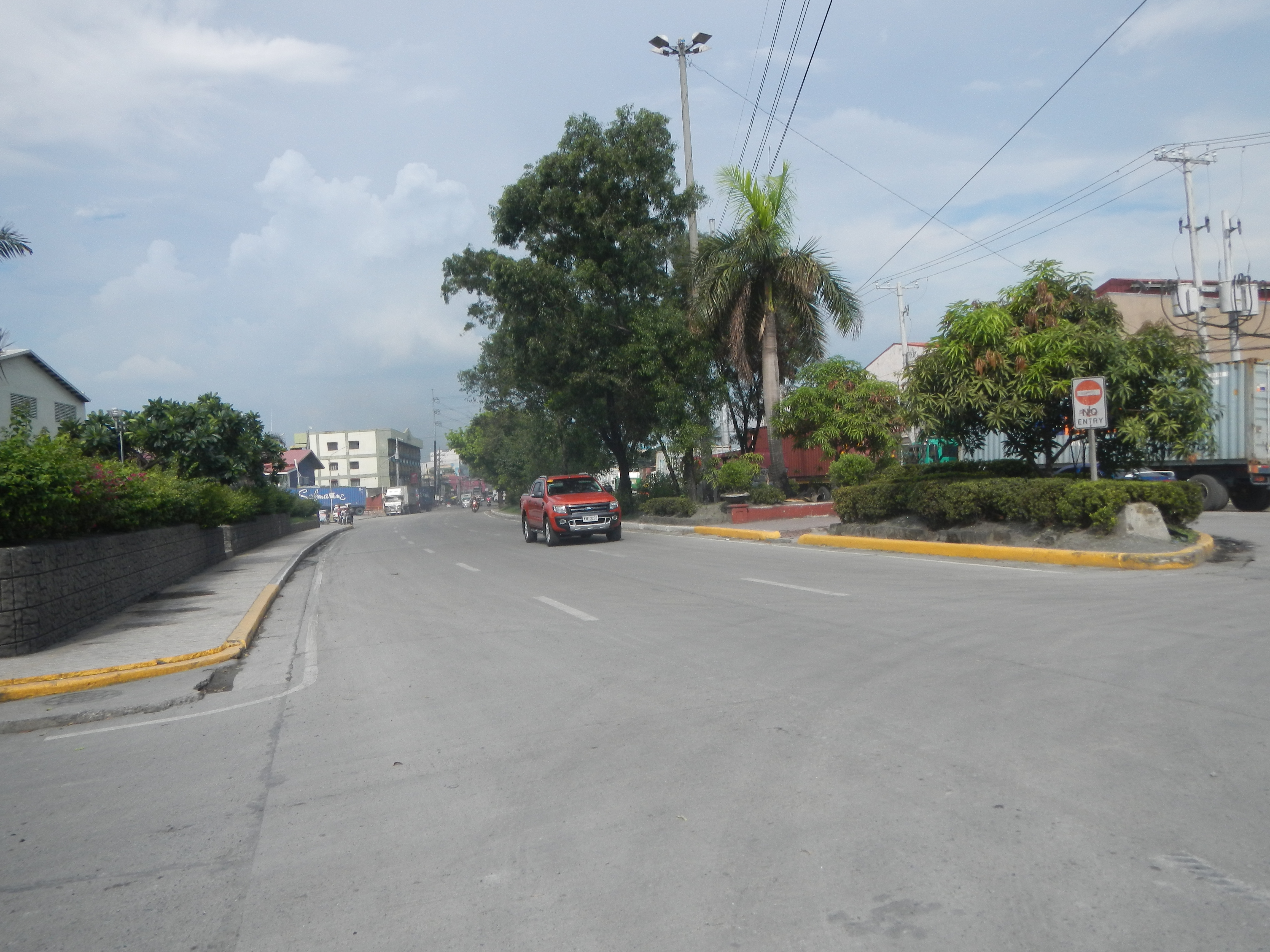 Malabon City Welcome Monument BarangayLongos, beside Tonsuya, Malabon City Aquino Avenue, Letre Road, Tugatog, Malabon City, to Letre Road in Tonsuya, Malabon City of the Metro Manila Road Network of the Circumferential Road 4 (accessed from Epifanio de los Santos Avenue (EDSA, Balintawak-Monumento, Caloocan City section) of EDSA (road) Epifanio de los Santos Avenue Highway 54) interconnecting with the Monumento Roundabout (Andrés Bonifacio National Monument, Caloocan City) Bonifacio National Monument Rotunda (Caloocan City) (Bonifacio Monument List of public art in Metro Manila, Andrés Bonifacio Bantayog ni Bonifacio, Monumento (Caloocan City (South).